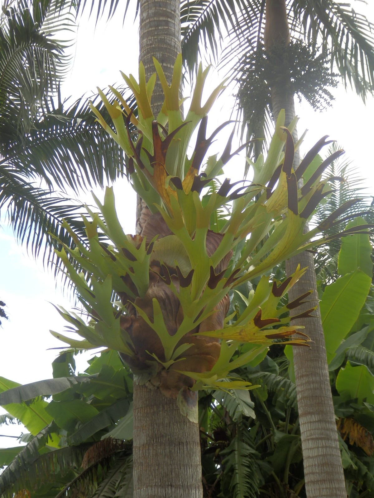 Platycerium alcicorne, Garden, Reunion island